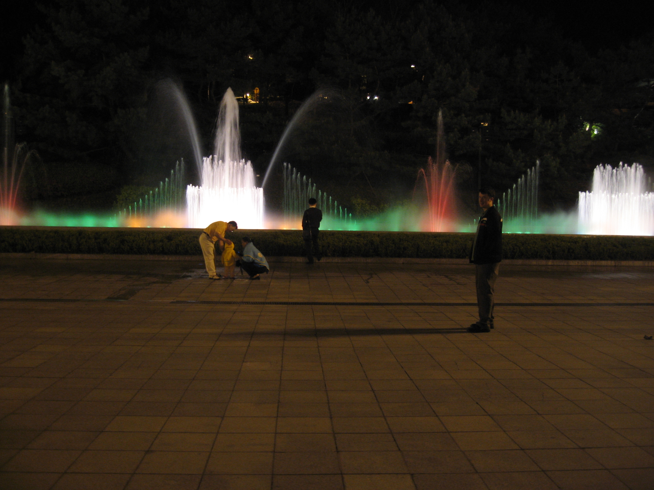 Seoul Arts Center